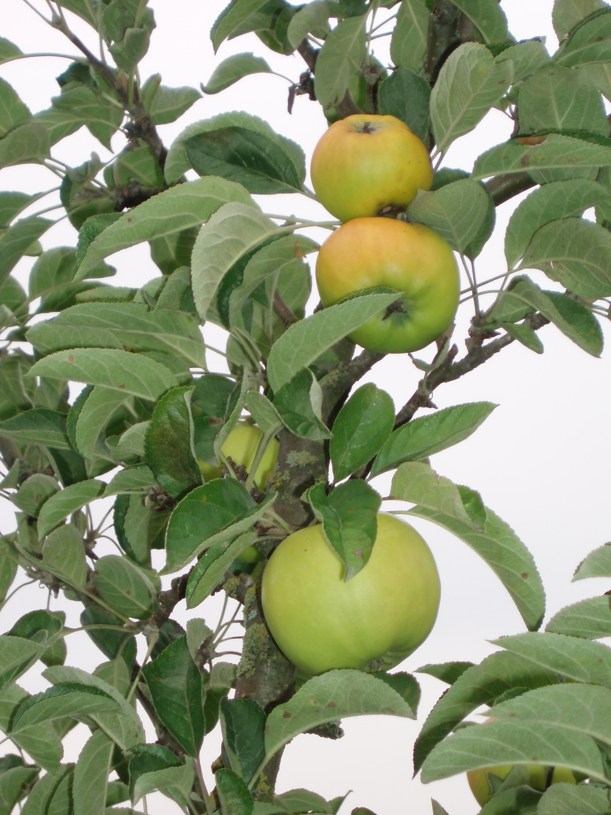 Seestermüher Zitronenapfel, young tree with fruits